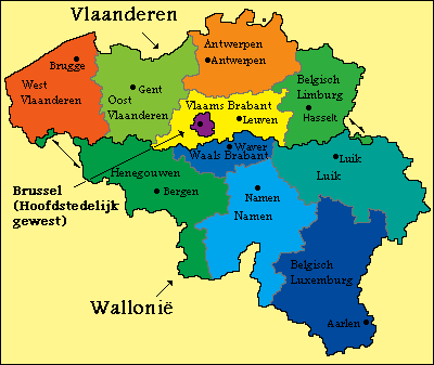 Dutch map of Belgian Provinces